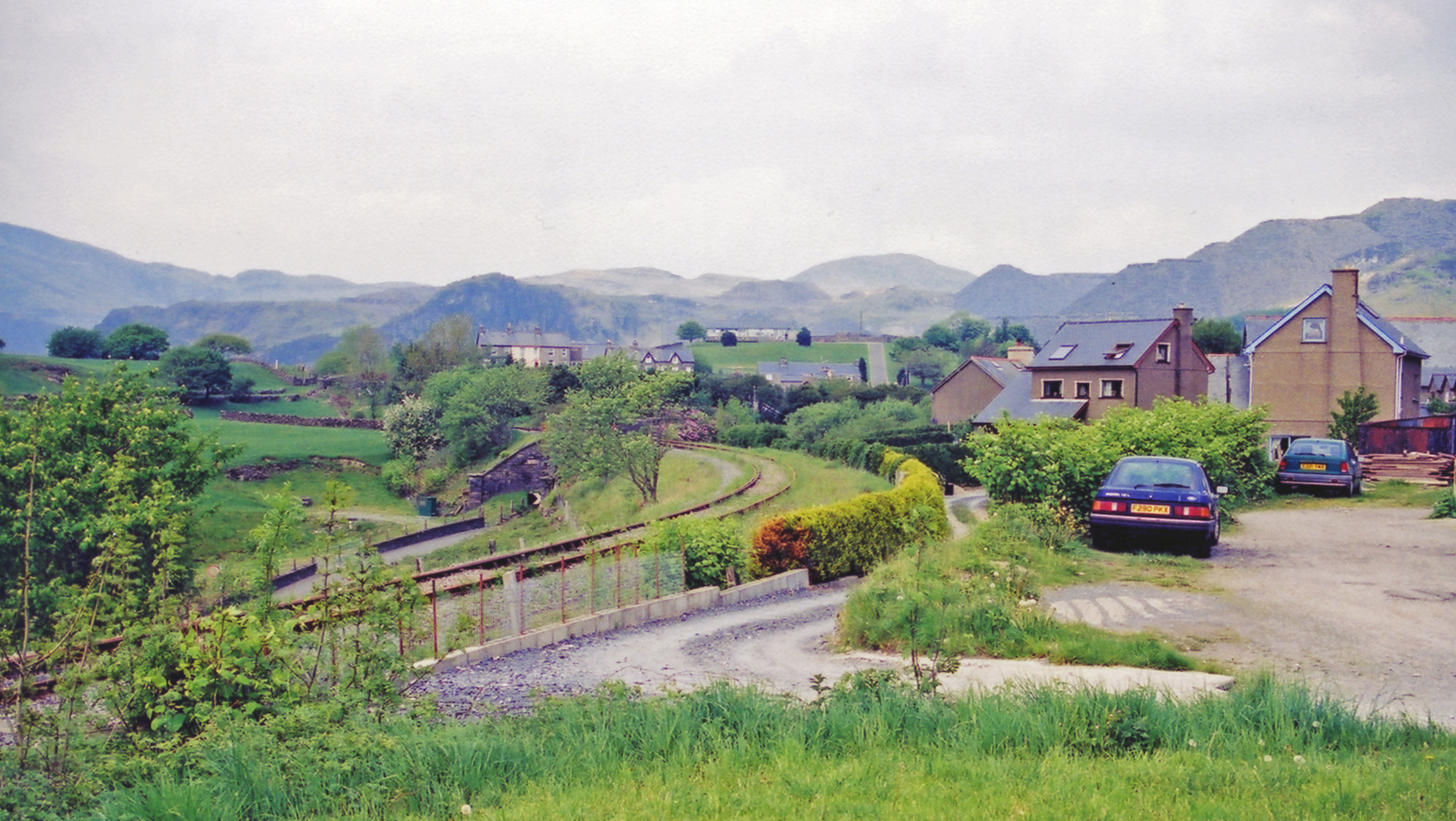 Site of Manod station, 2001. View north on the A470, towards Blaenau Ffestiniog, the railway line being from Trawsfynydd nuclear power station, the surviving remains of the ex-GWR branch from Bala, closed 4/1/60 to passengers, 28/1/61 to goods. The mountains ahead, forming the barrier between the Vale of Ffestiniog and that of the Afon Lledr in Gwynydd, are probably Moel Druman (2,287 ft.) to the left, Manod Mawr (2,168 ft.) on the right and Moel Siabod (2,860 ft.) on the horizon.